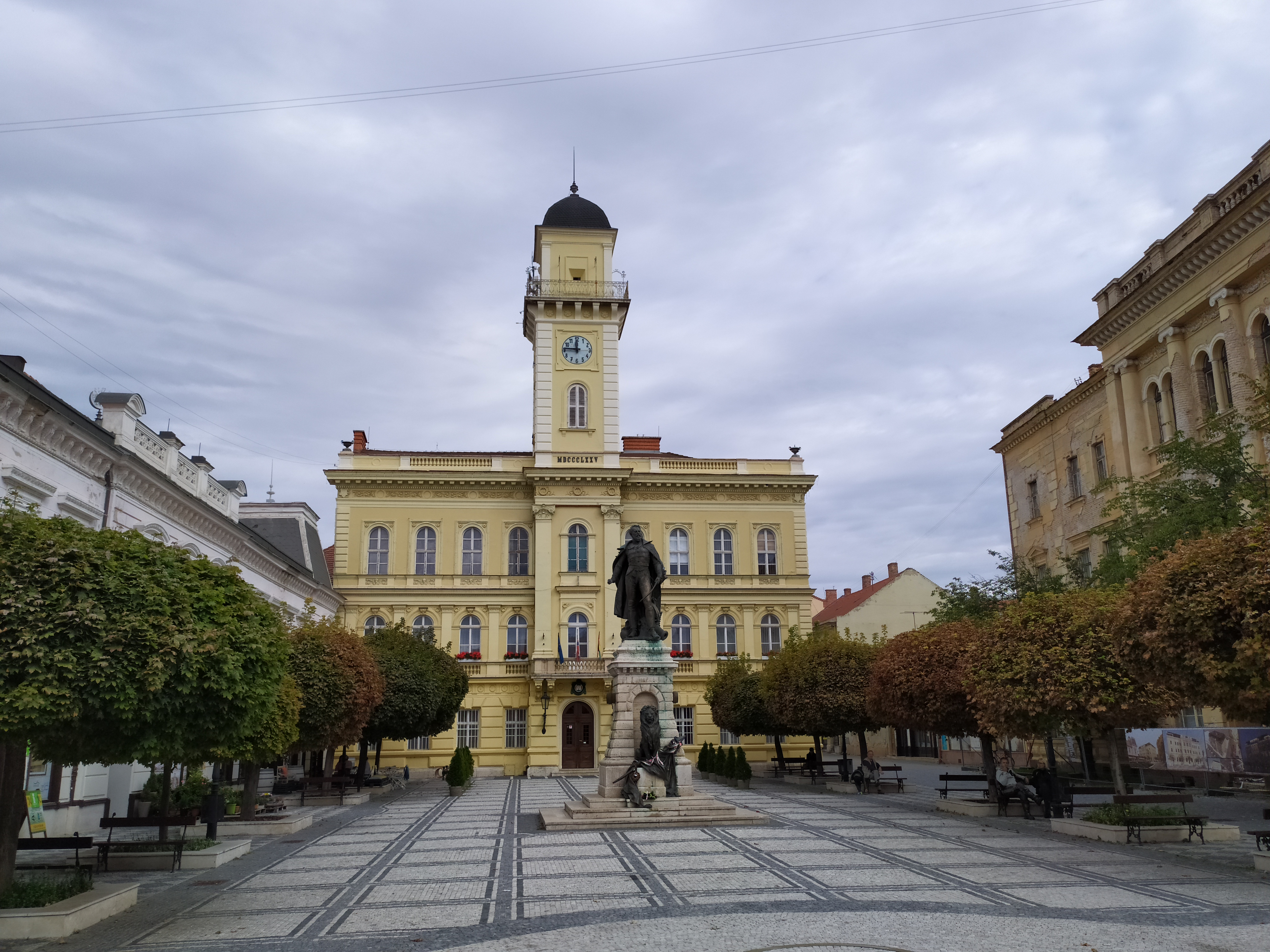 Klapka Street and City Hall in Komárno